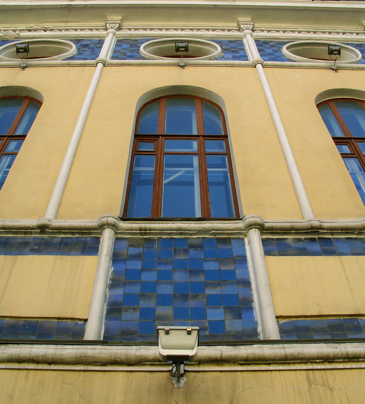 Plekhanov Academy, Zatsepa Street, Moscow, 1904-1905, architect: Nikolai Shevyakov